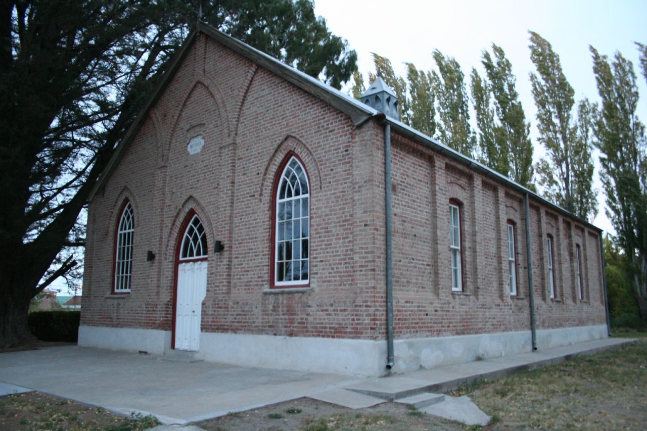 Capel Bethel - Welsh protestant chapel in Gaiman. Uploaded per request at Wikipedia:Images for upload.